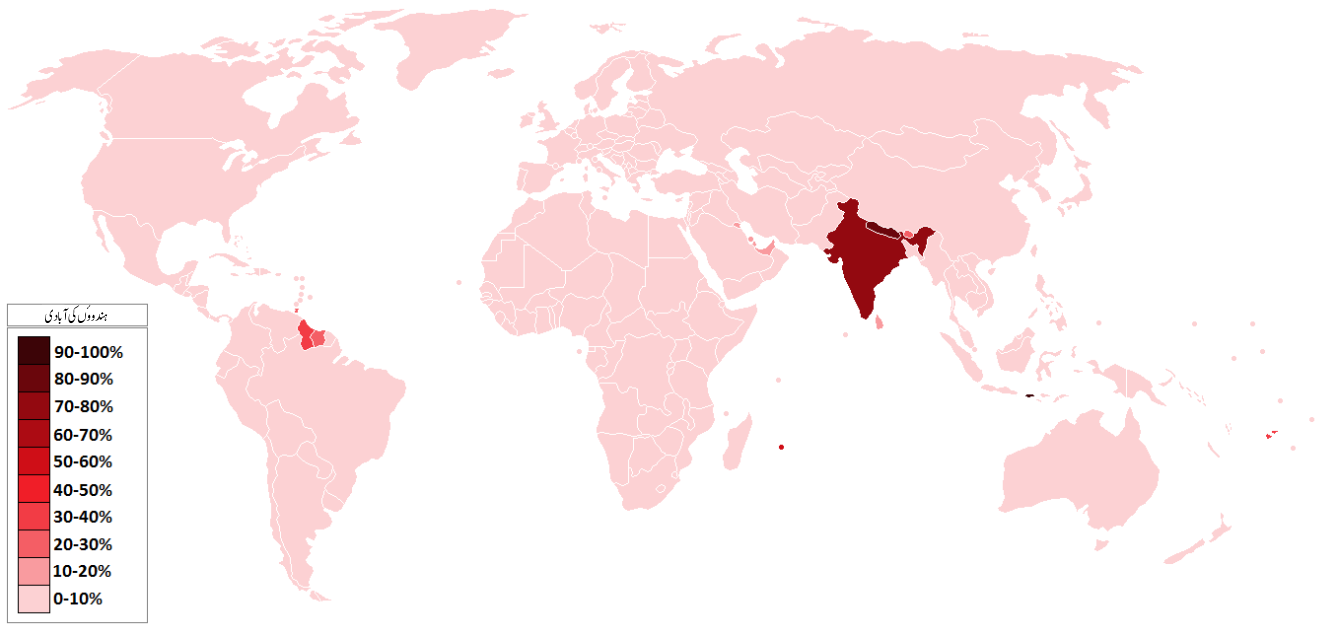 Map of the distribution of Hindus in the world - color difficulties? click here[1].